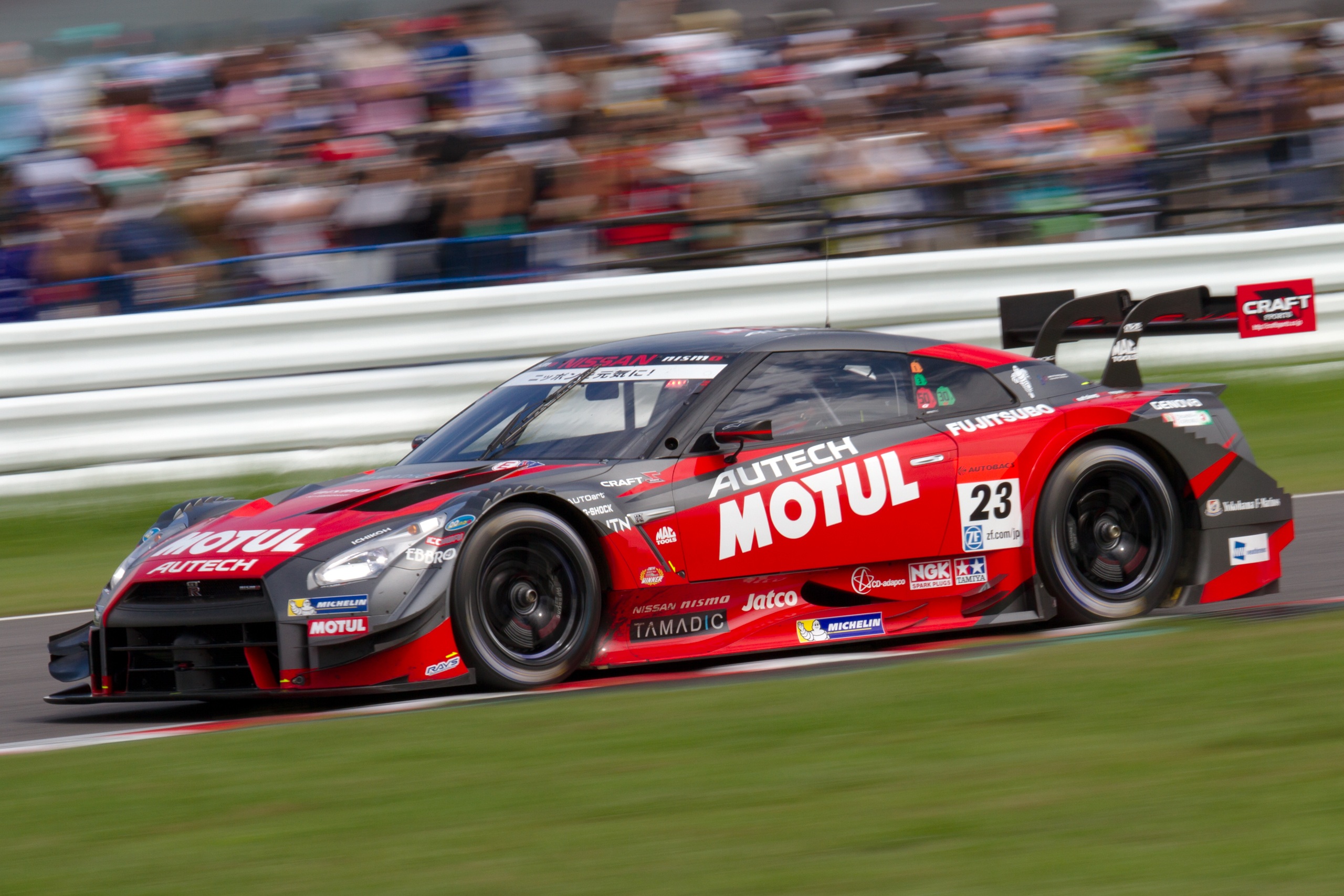 Super GT 2014 Rd.6 Suzuka 1000km: Tsugio Matsuda (Nismo)